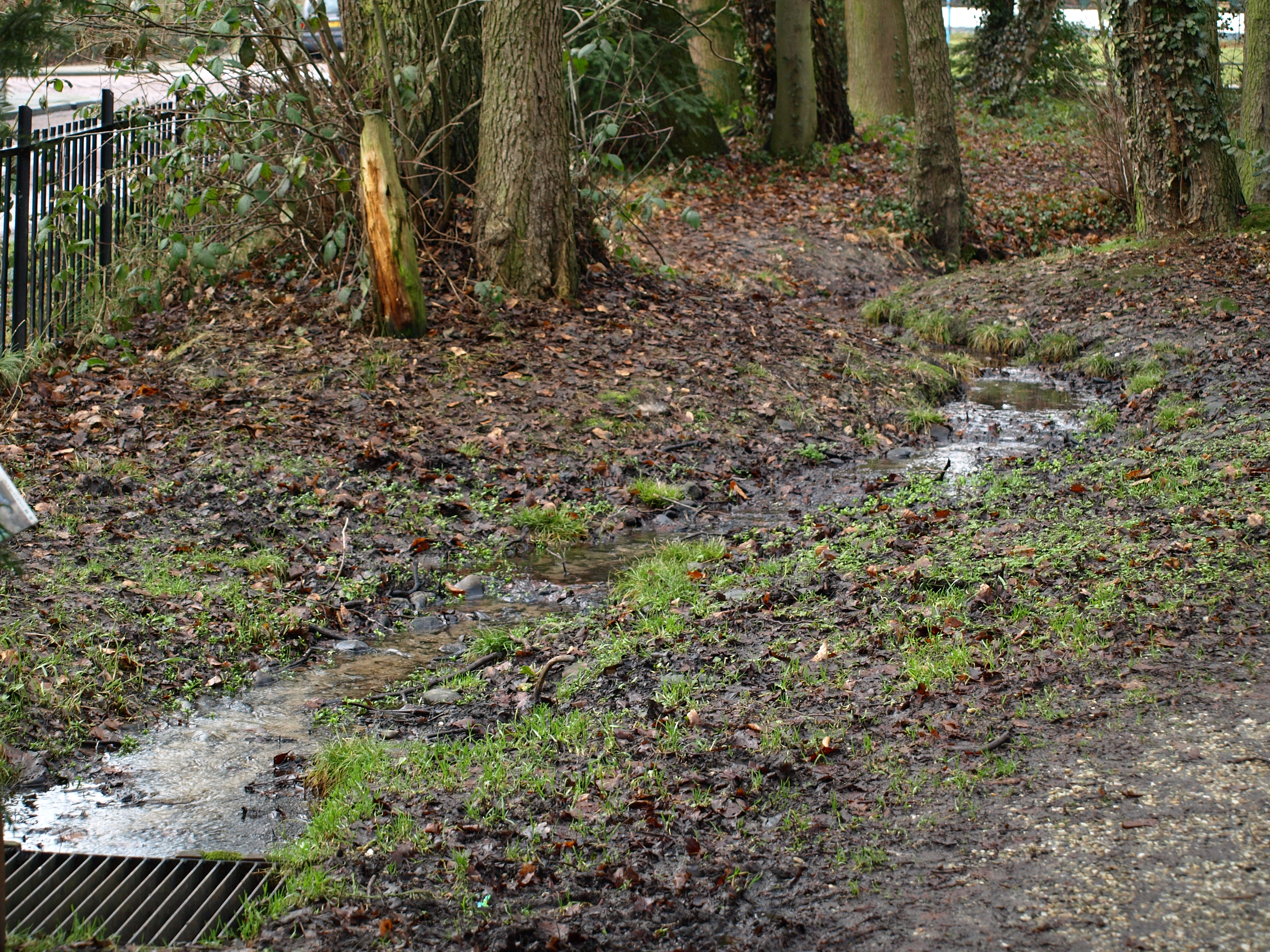 the Julianabeek, in Arnhem